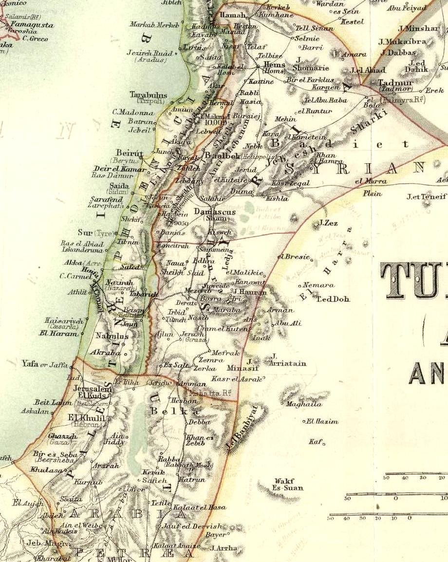 Turkey in Asia (Asia Minor) and Transcaucasia. Keith Johnston's General Atlas. Oct. 1911. Engraved, Printed, and Published by W. & A.K. Johnston, Limited, Edinburgh & London